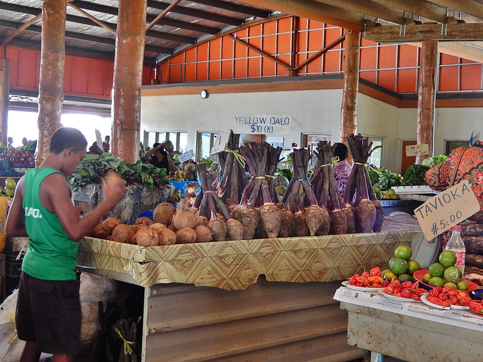 Local Market